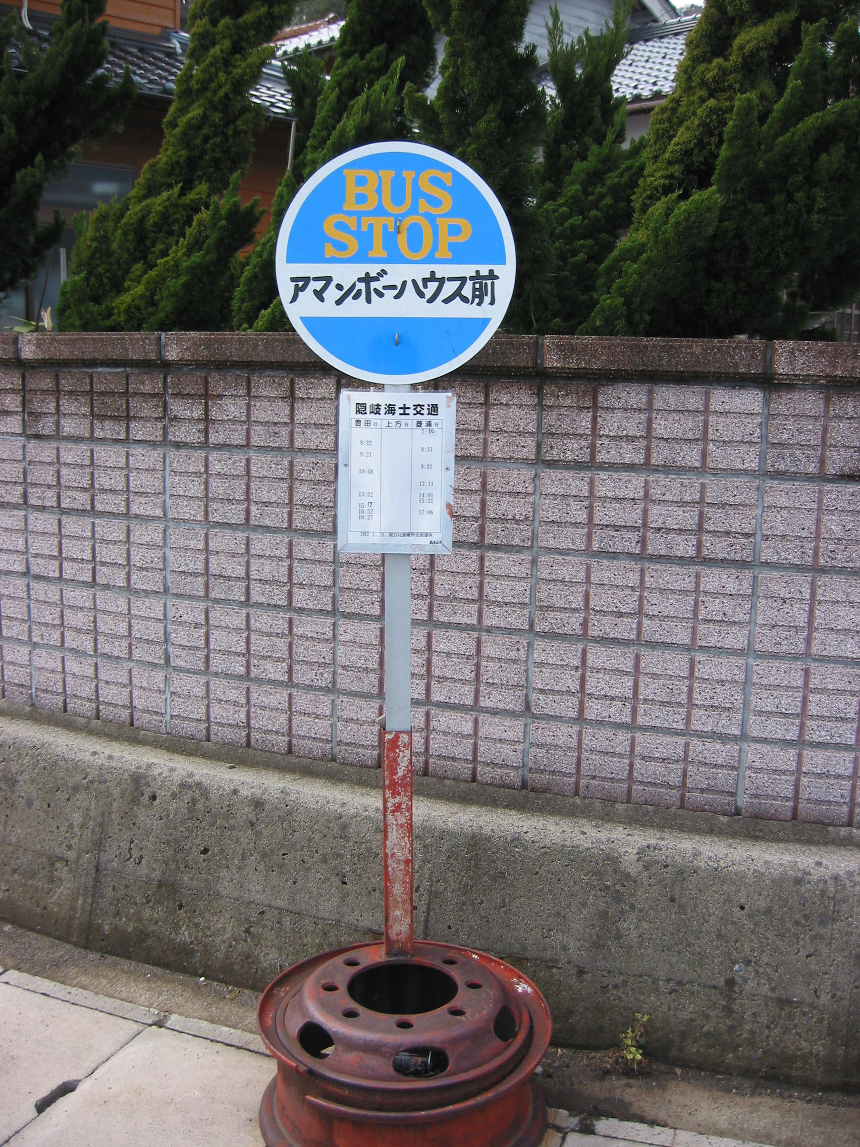 Oki Ama Kotsu Amanbo-House-mae Bus Stop